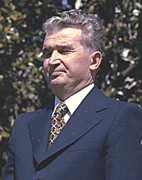 Nicolae Ceauşescu, crop from the Carter pic